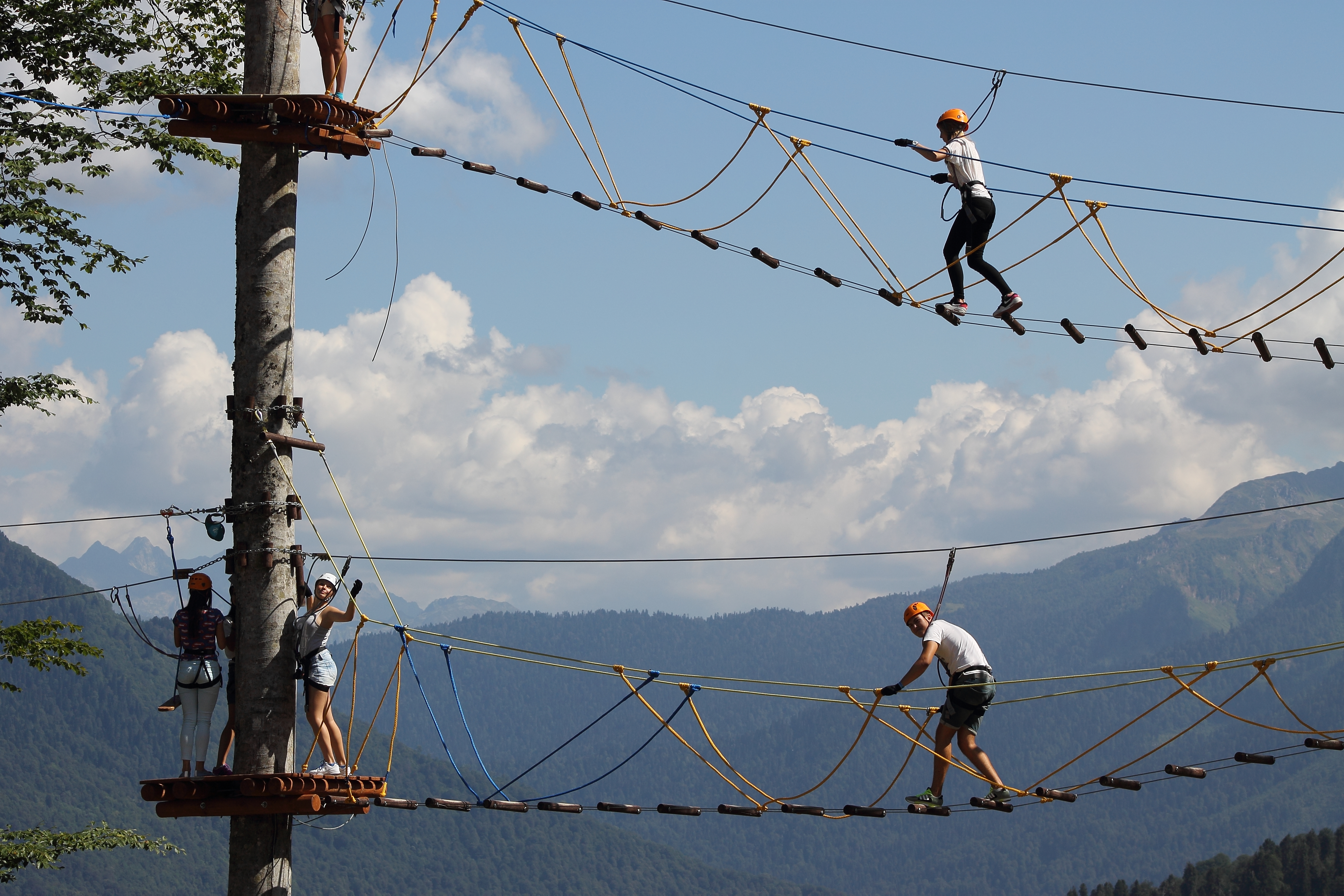 Adventure park — PandaPark at alpine resort Rosa Khutor in Krasnaya Polyana, near Sochi.